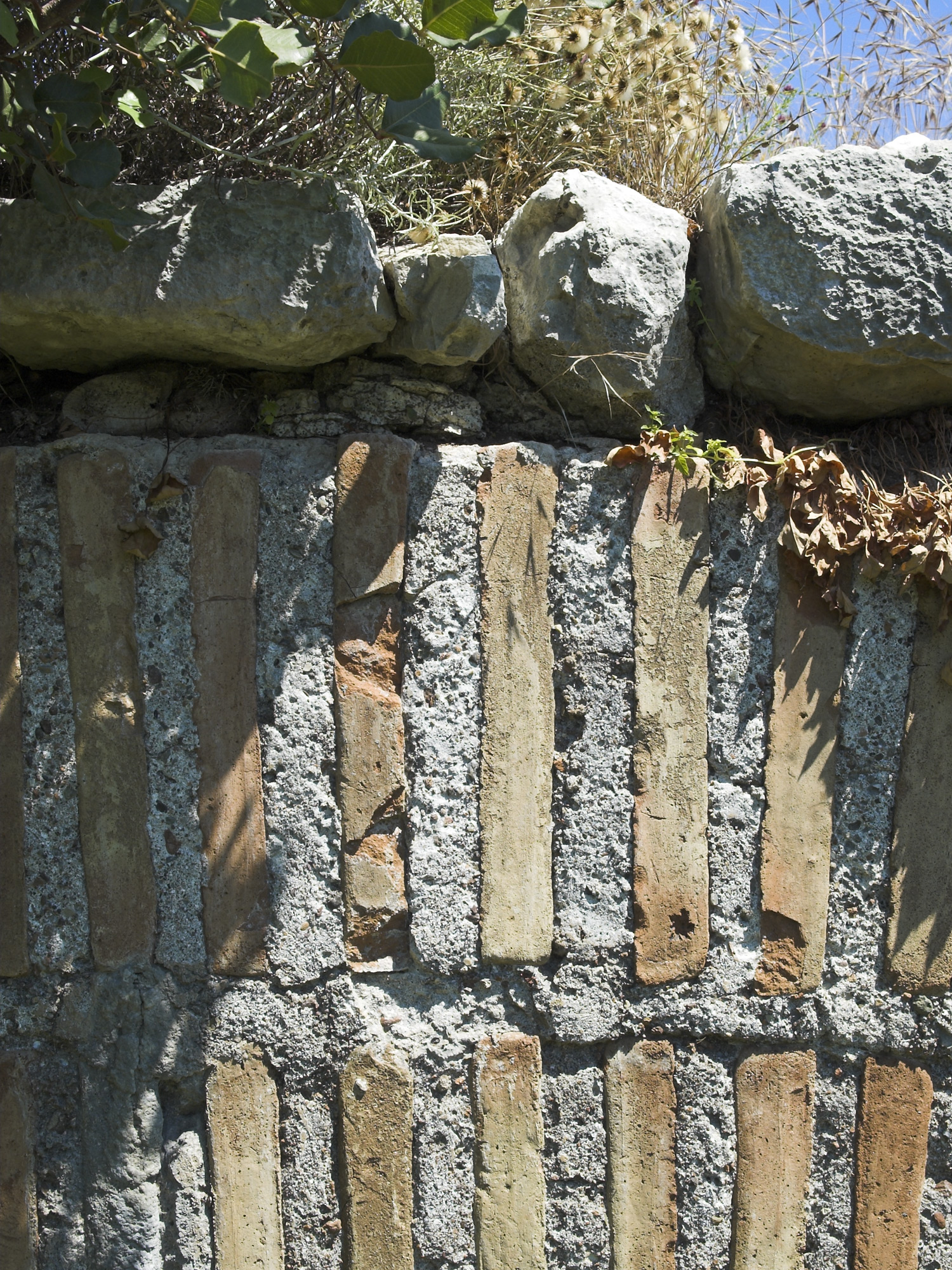 The Roman Bridge near Limyra, Lycia, Turkey. Ninth arch southside. The late antique structure is one of the oldest segmental arch bridges in the world. The 360 m long bridge crosses on 28 arches the Alakır Çayı, 26 of which being segmental arches with an average span to rise ratio of 5.3 to 1. Today, the structure is buried up to the vaults by river sedimentation.